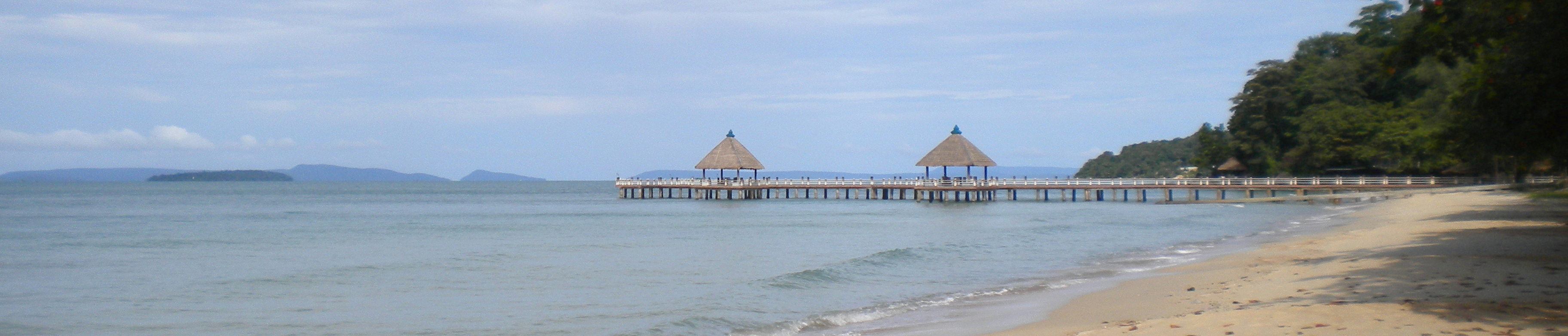 panorama of independence beach Sihanoukville with recently built jetty, October 2014